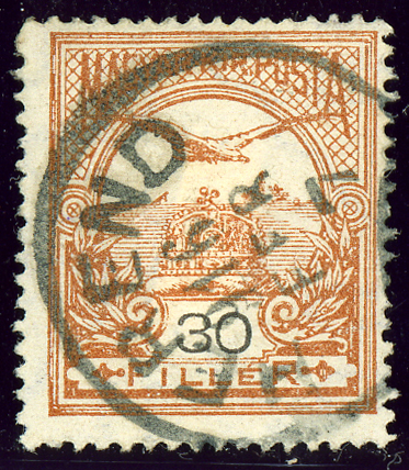 Hungarian stamp issue 1913, 30 fillér, orange-brown (SG182), cancelled BEREND, a village of Odoreu, Transylvania (Romania) in 1916. Michel N°119.